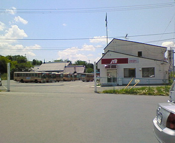 Iwate Kenpoku Bus Ichinohe Depot